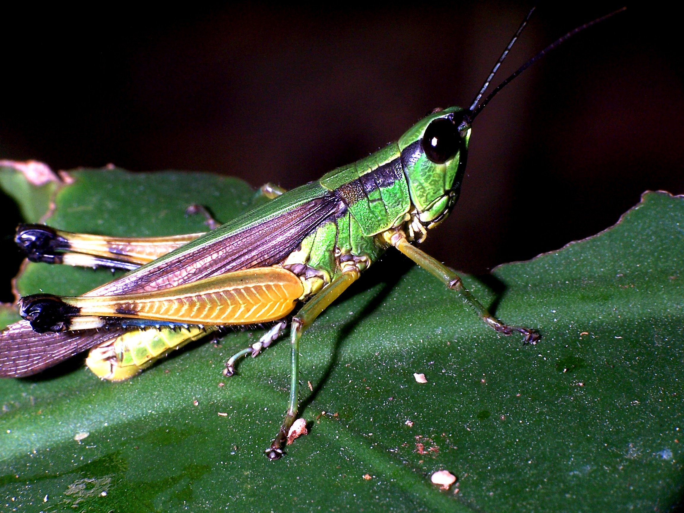 Glasshopper again, the brightly green of this one can be seen far away.